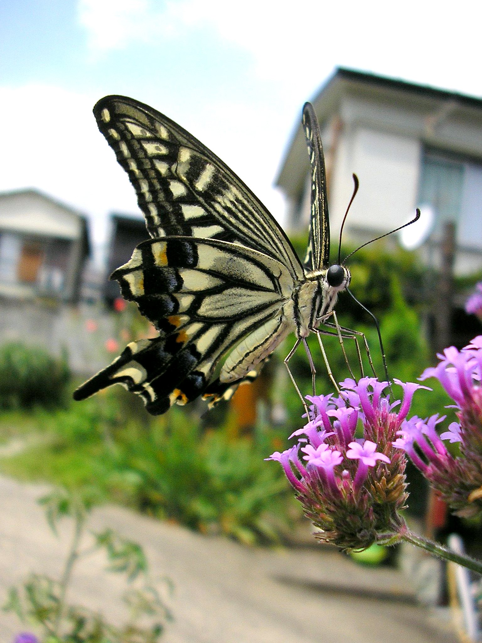 Closeup of an unidentified butterfly on a flower.